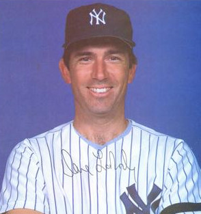 Professional baseball player Dave Laroche during the 1981 season as a member of the New York Yankees.